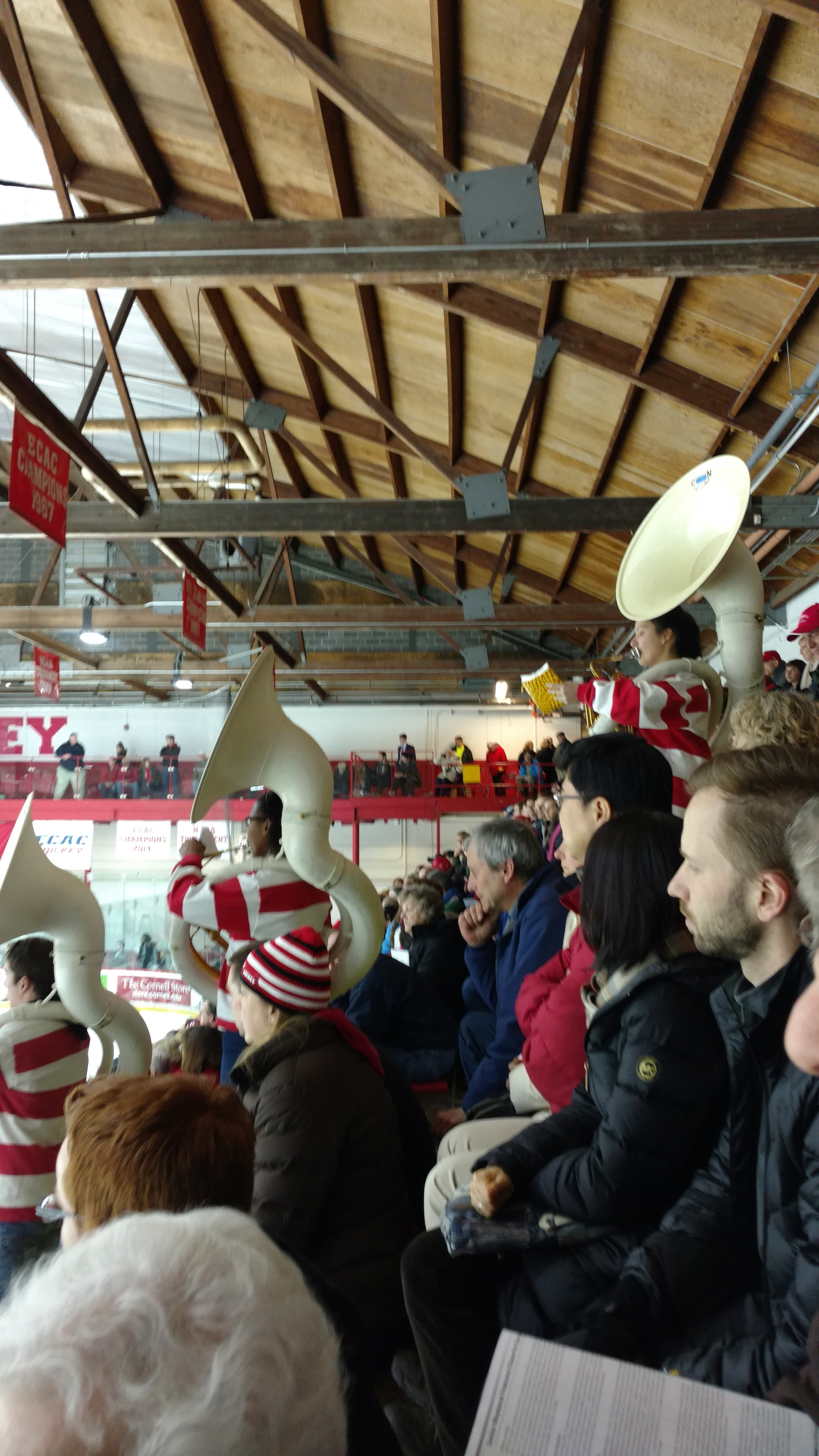 the Cornell University Pep Band plays Swanee River over the Union College Men's ice hockey team bench during a game at James Lynah Rink on Feb 26 2016